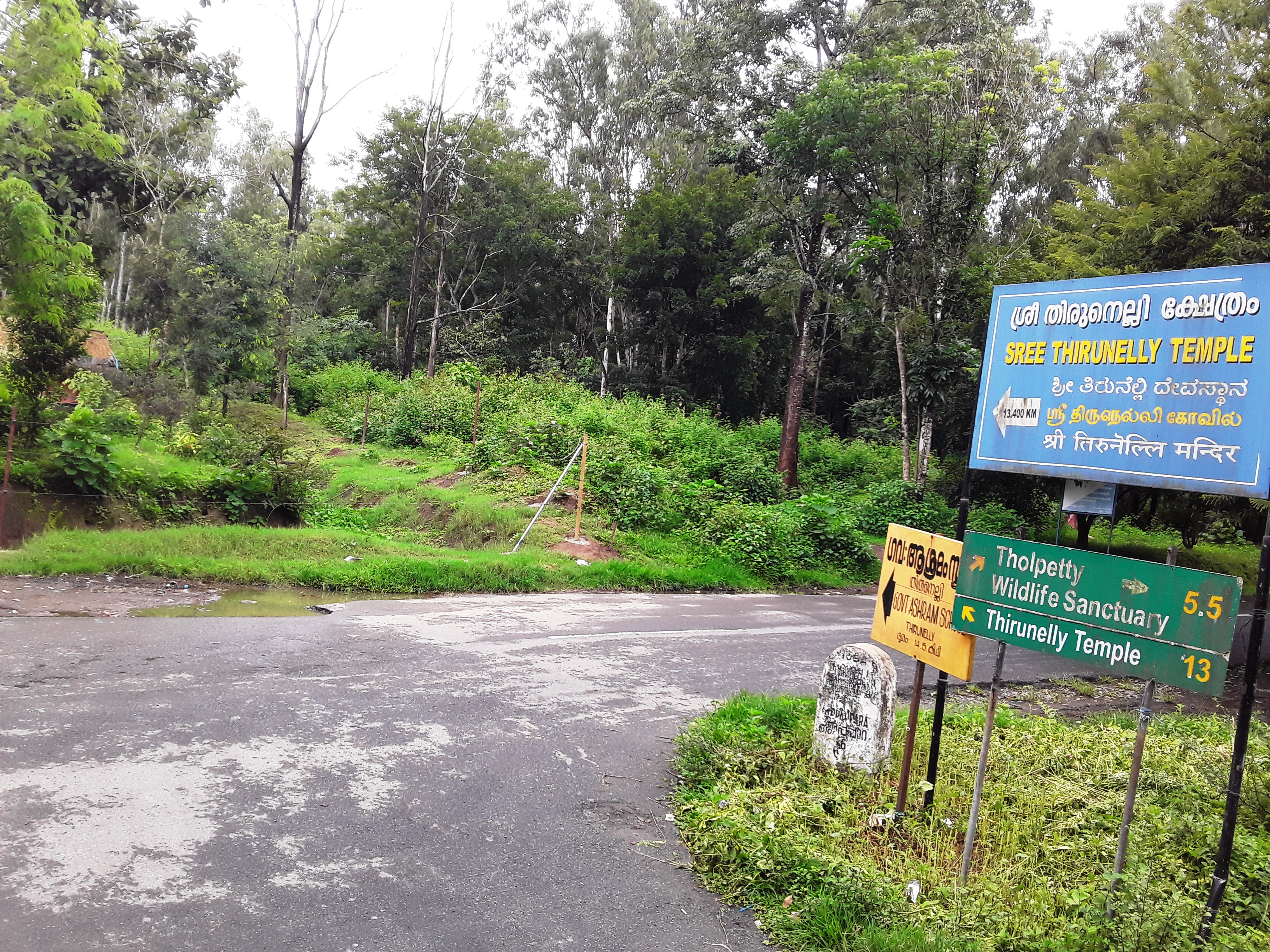 Wayanad district, Kerala state, India.